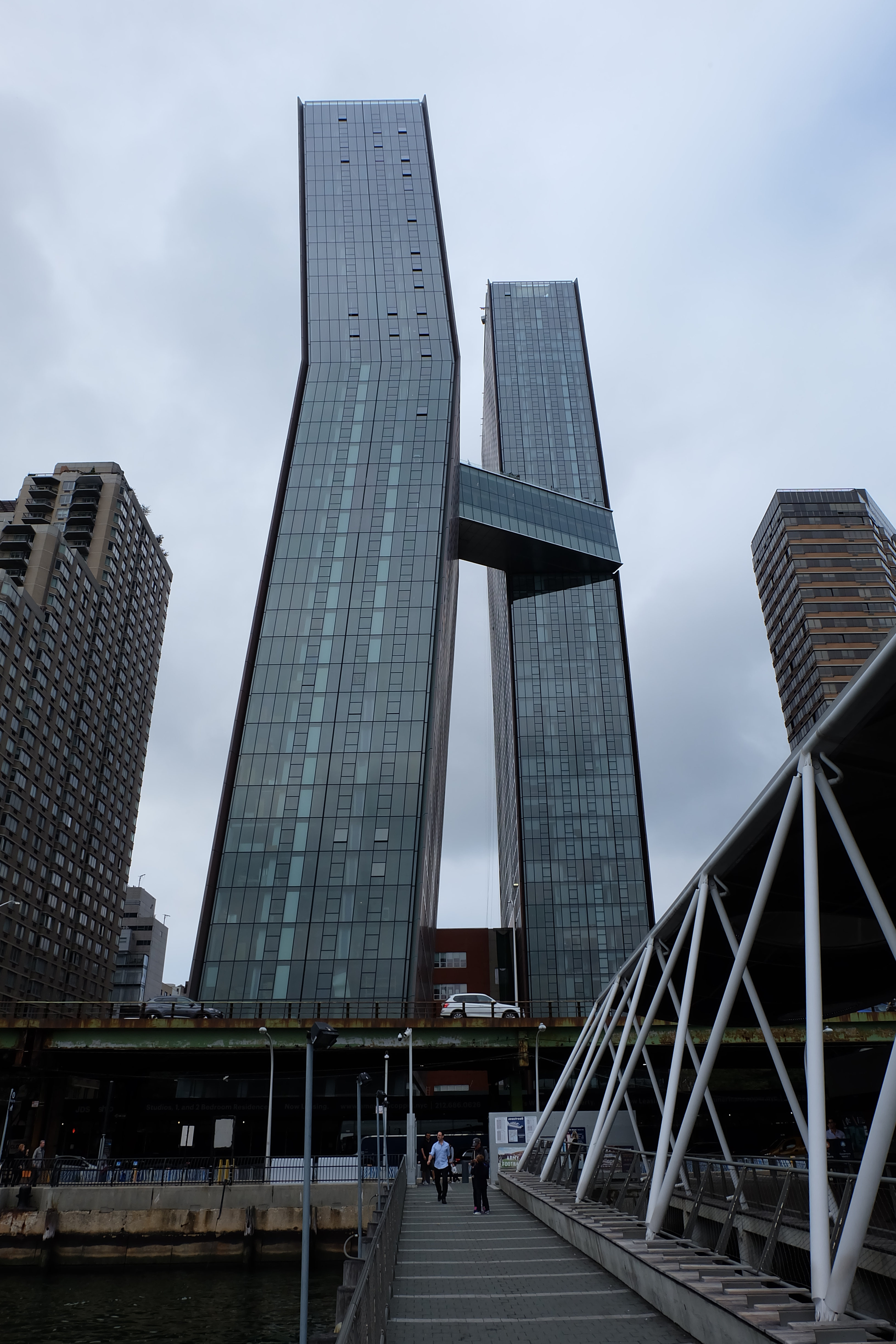 American Copper Buildings, looking west from the ferry dock. Site: American Copper Buildings Skybridge